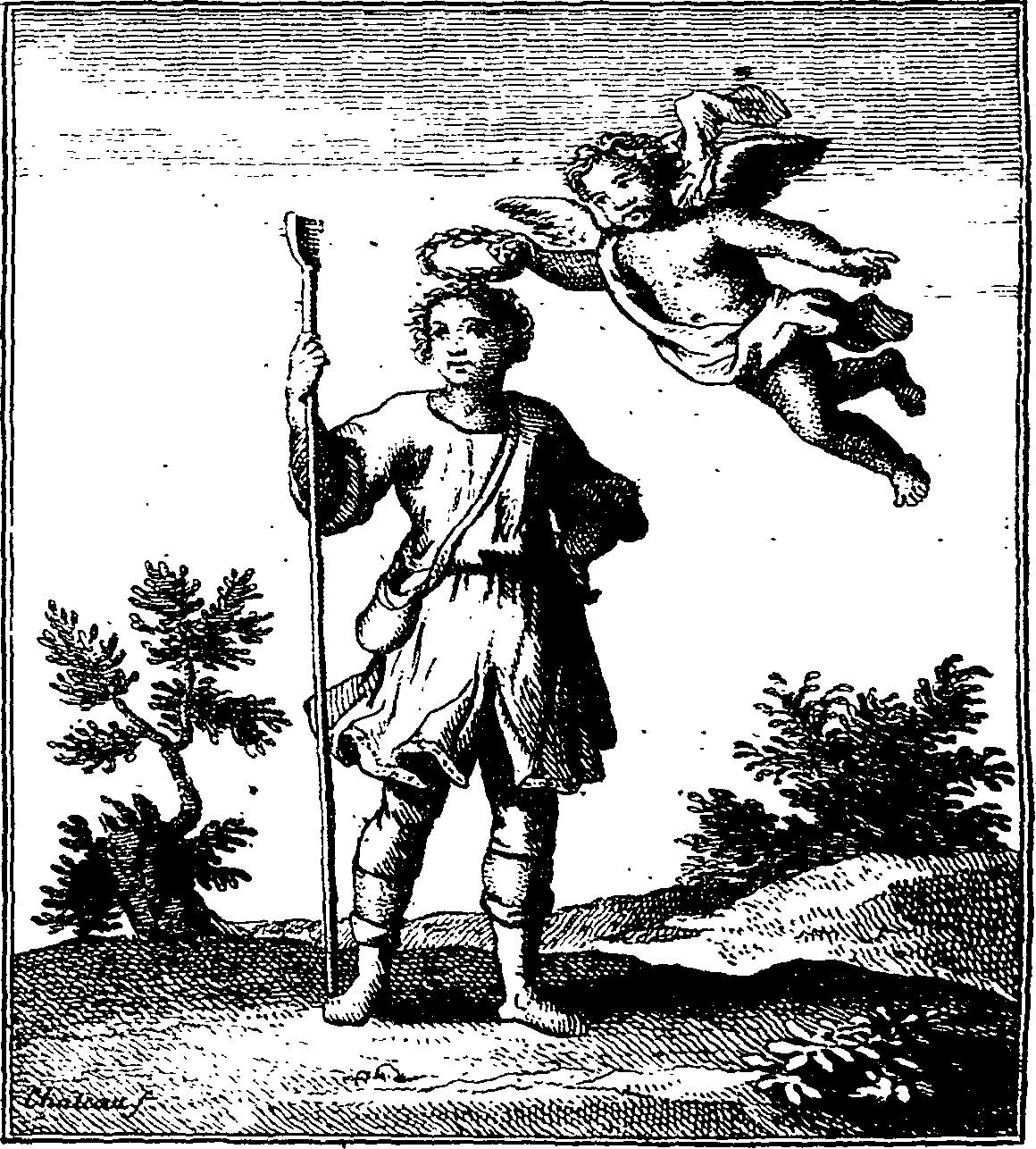 Fleuron from book: Il pastor fido tragicomedia di Battista Guarini Cavaliero di S. Stefano.